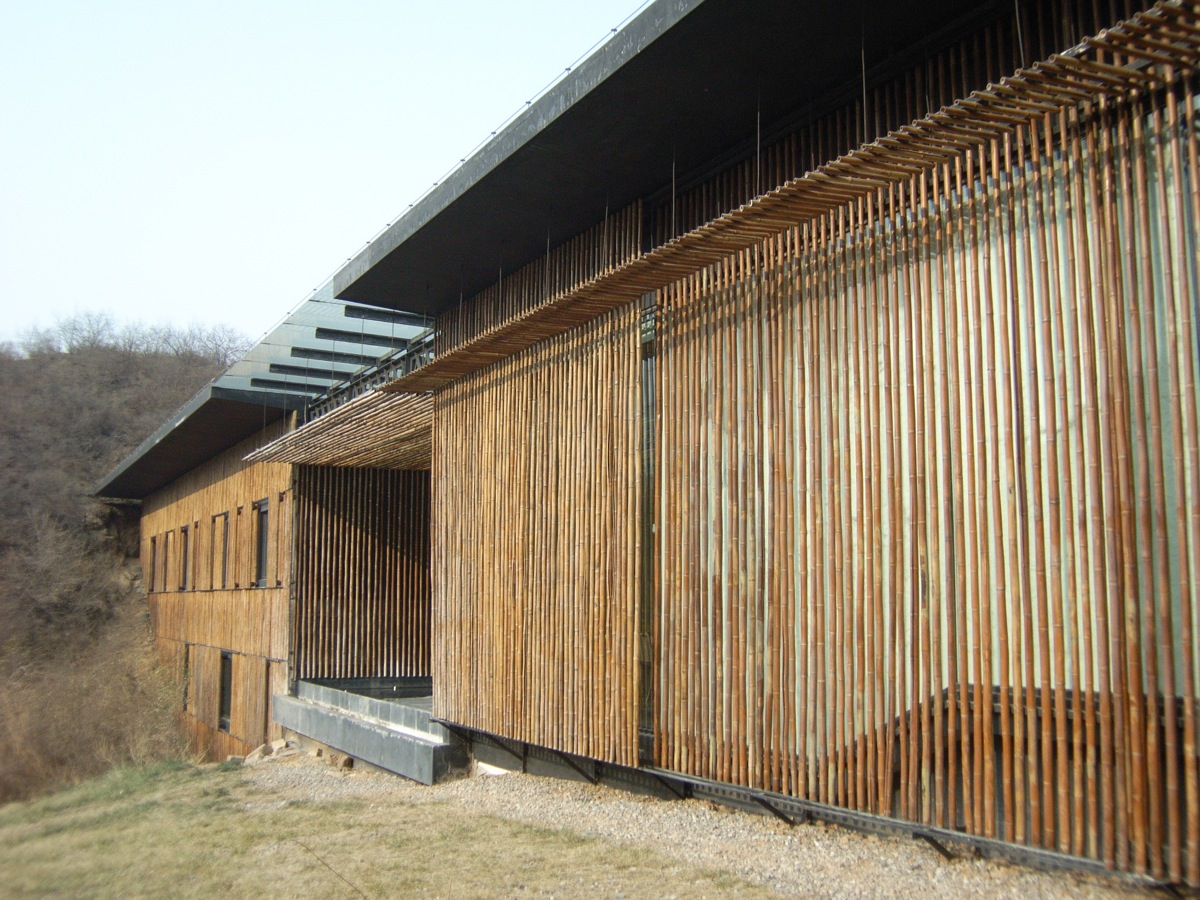 "Great (Bamboo) Wall" designed by Kengo Kuma, in "Commune by the Great Wall, Beijing, China.